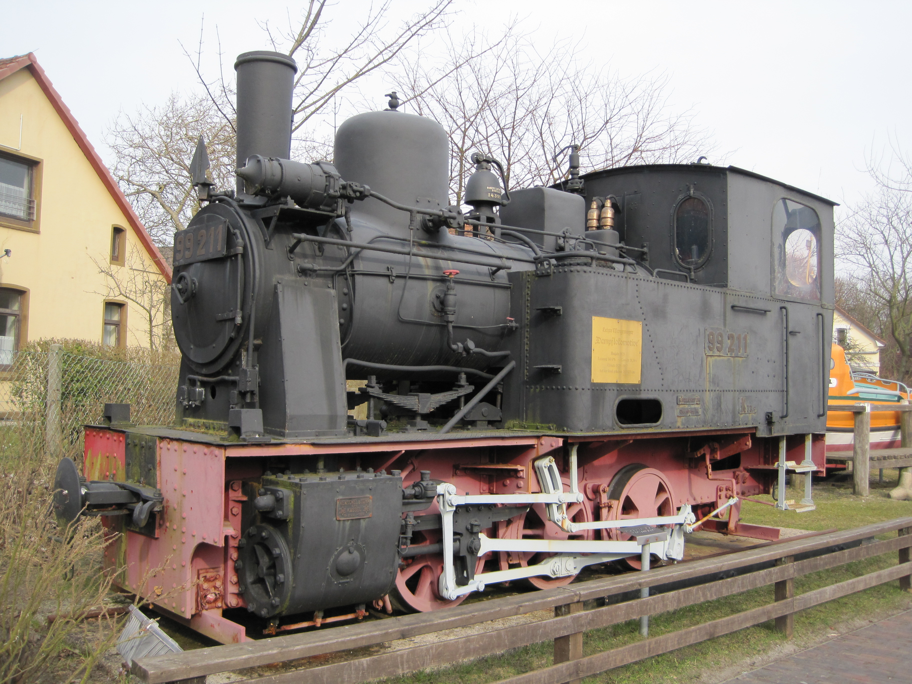 Steam locomotive 99 211, Wangerooge, Germany check usage